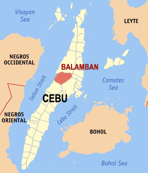 Map of Cebu showing the location of Balamban